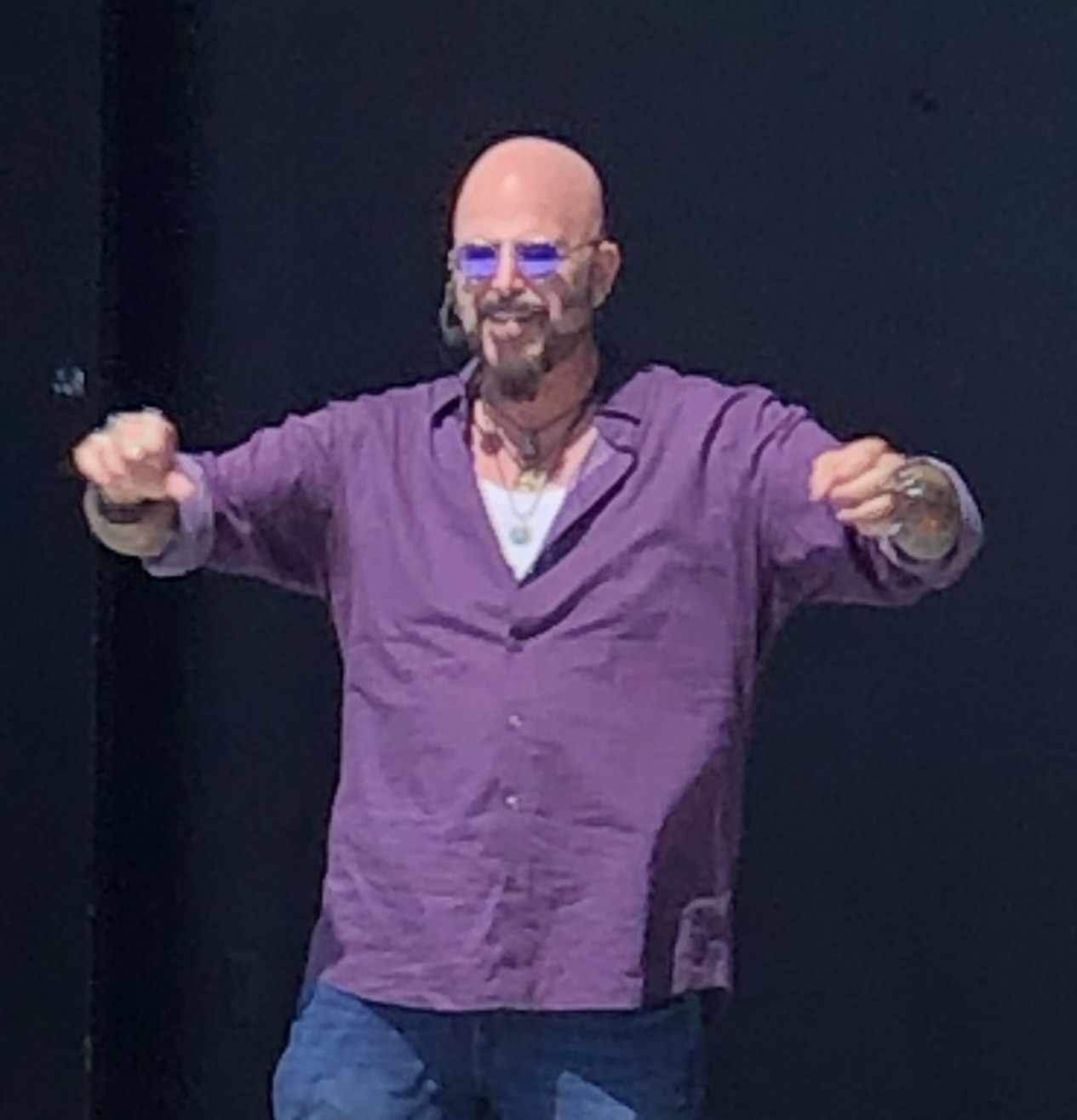 Jackson Galaxy at the Bay Area Pet Fair 2019, Pleasanton Fairgrounds, Pleasanton, California